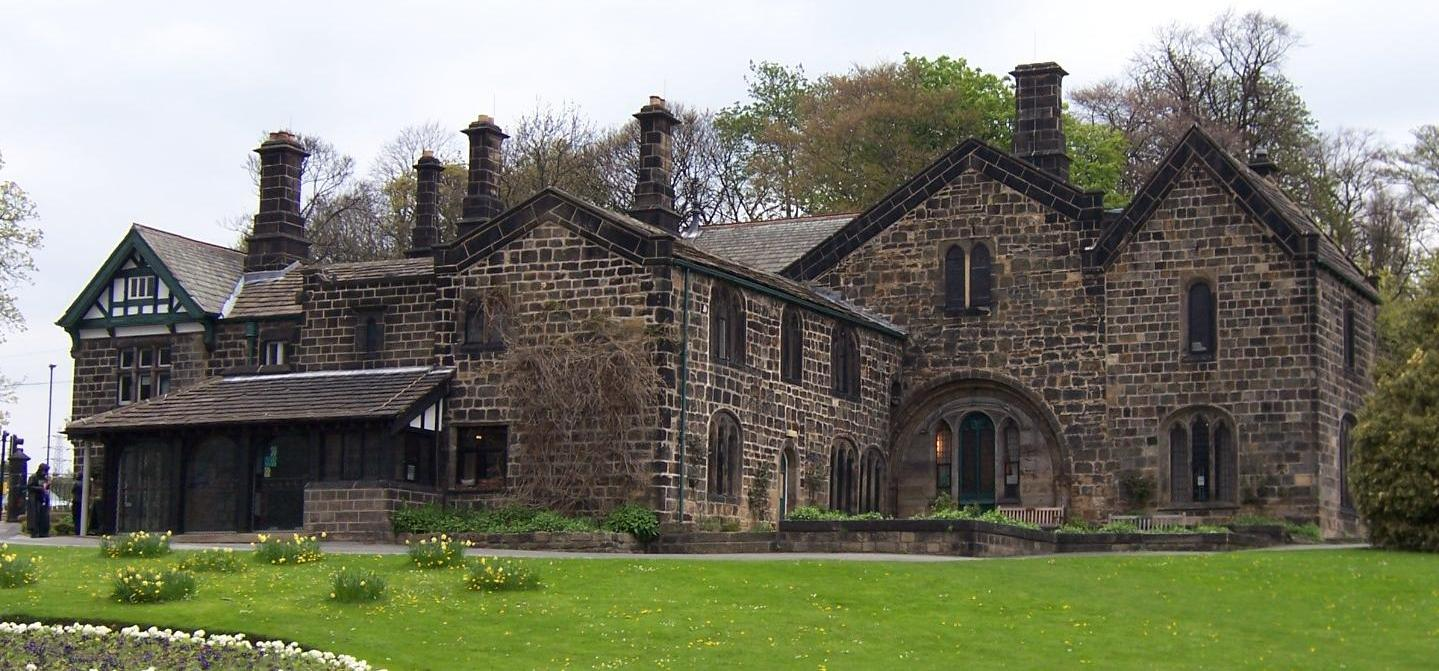 Kirkstall Abbey House Museum in Leeds, Yorkshire (England) own work; photo taken on 30 April 2006